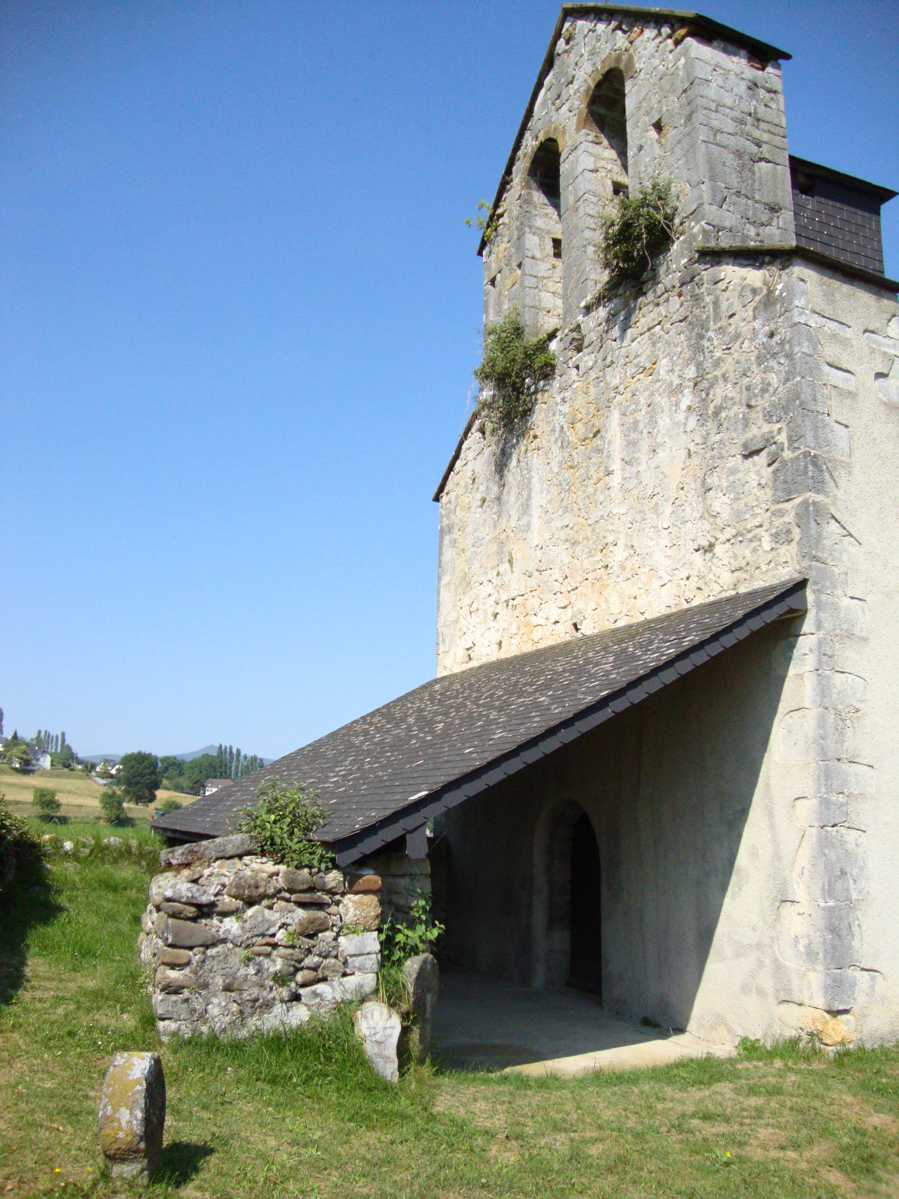 Charritte-de-Haut (Lacarry e.a. Pyr-Atl, Fr) church with bell gable above the portal